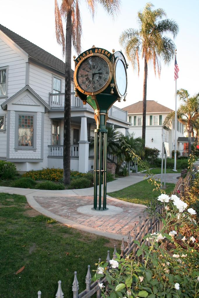 The Newly restored Dreger Clock as it stands after restoration in front of the historic Whitaker/Jaynes House in Buena Park, CA.